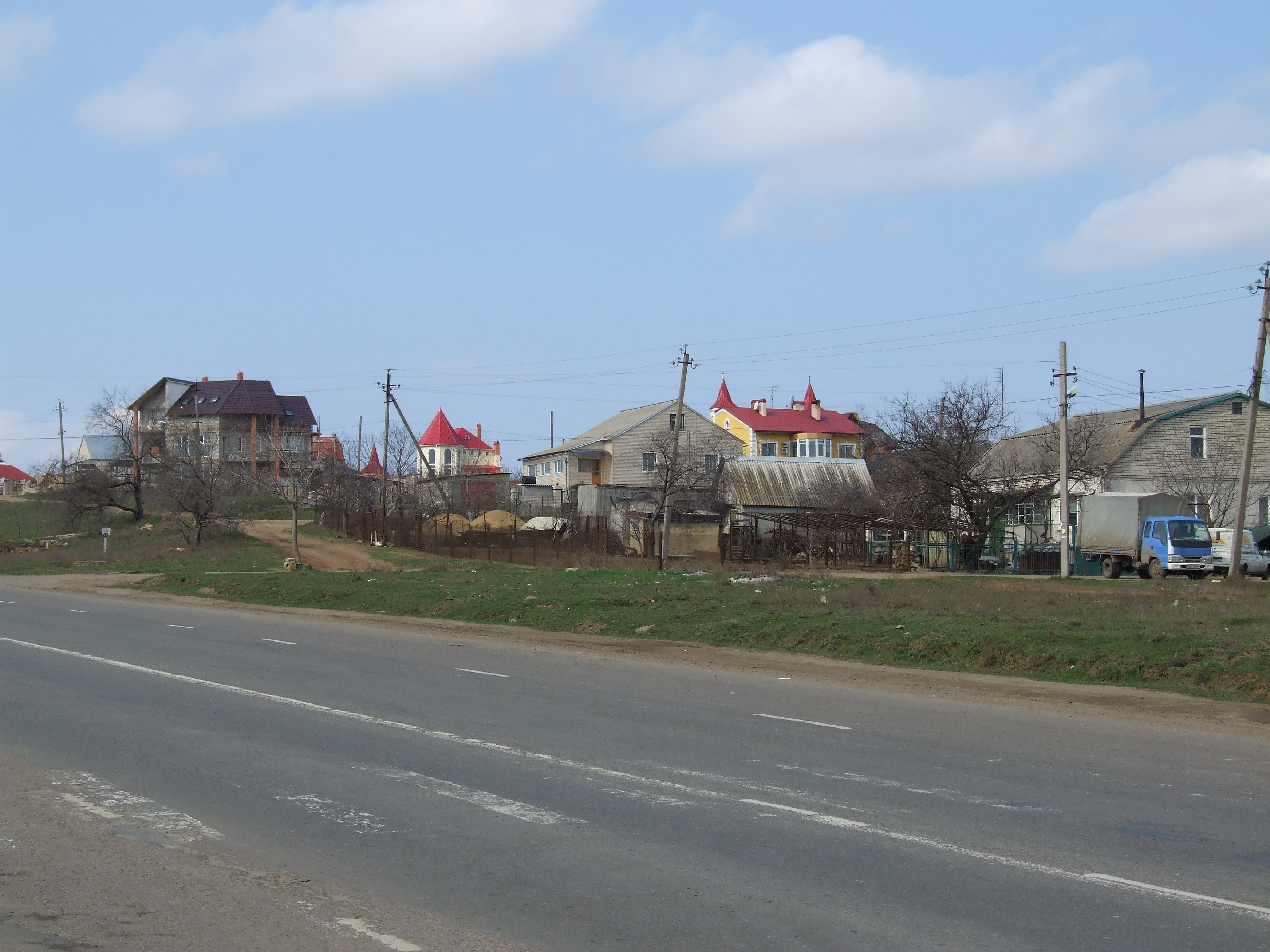 A viev of Vapnyarka village, Kominternivskyi Raion, Odessa Oblast, Ukraine